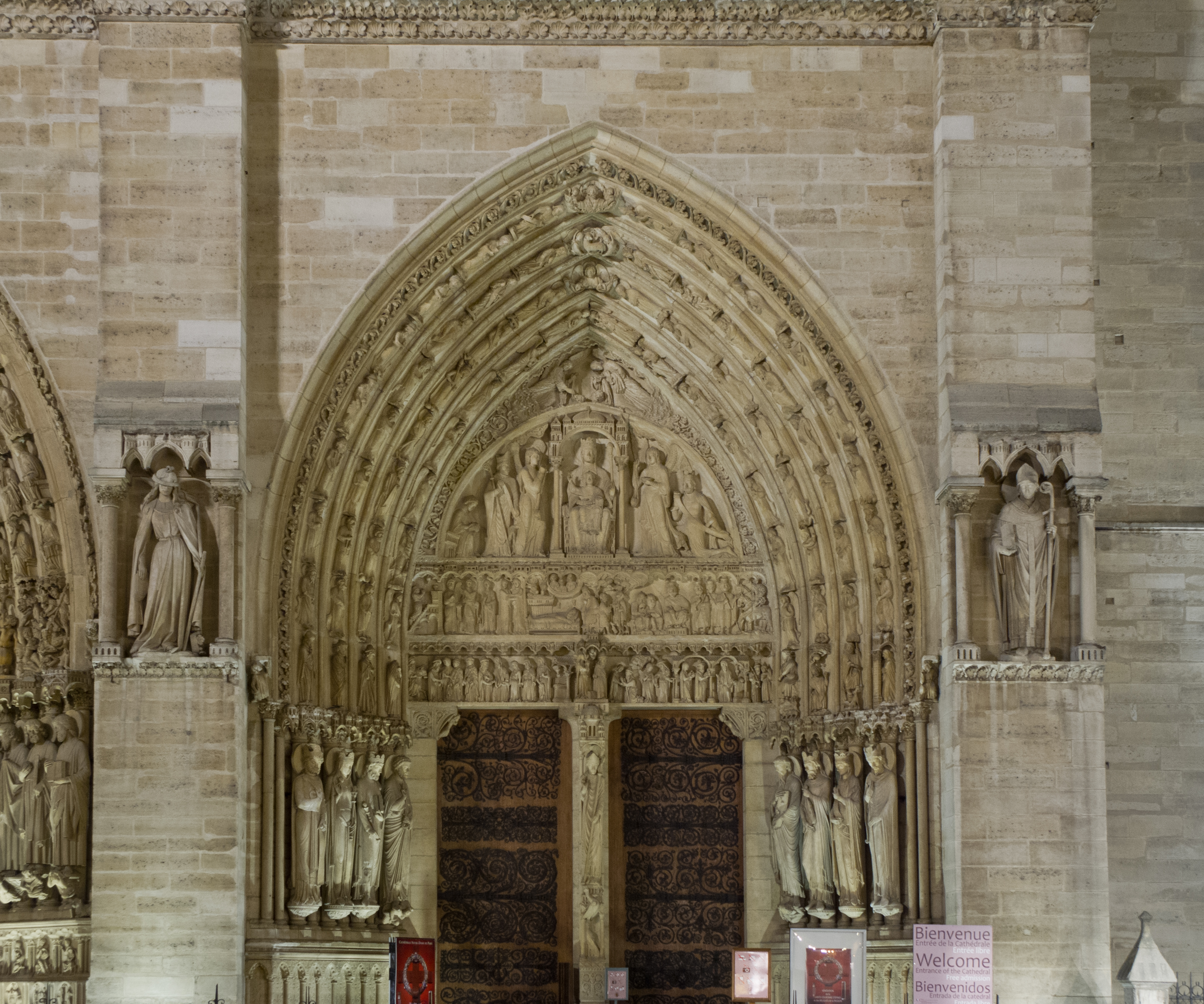 Night view of the Portal of St. Anne Last Judgement of the Cathedral of Notre-Dame of Paris, France.